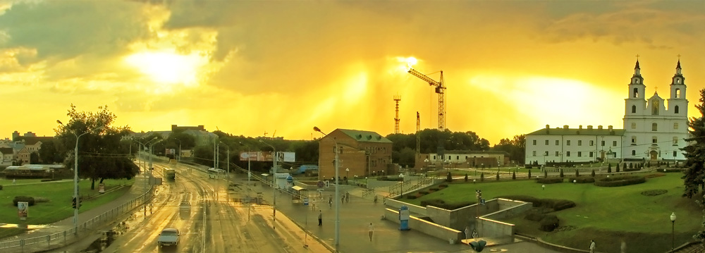 Beginning of Bahdanovič street in Minsk, Belarus